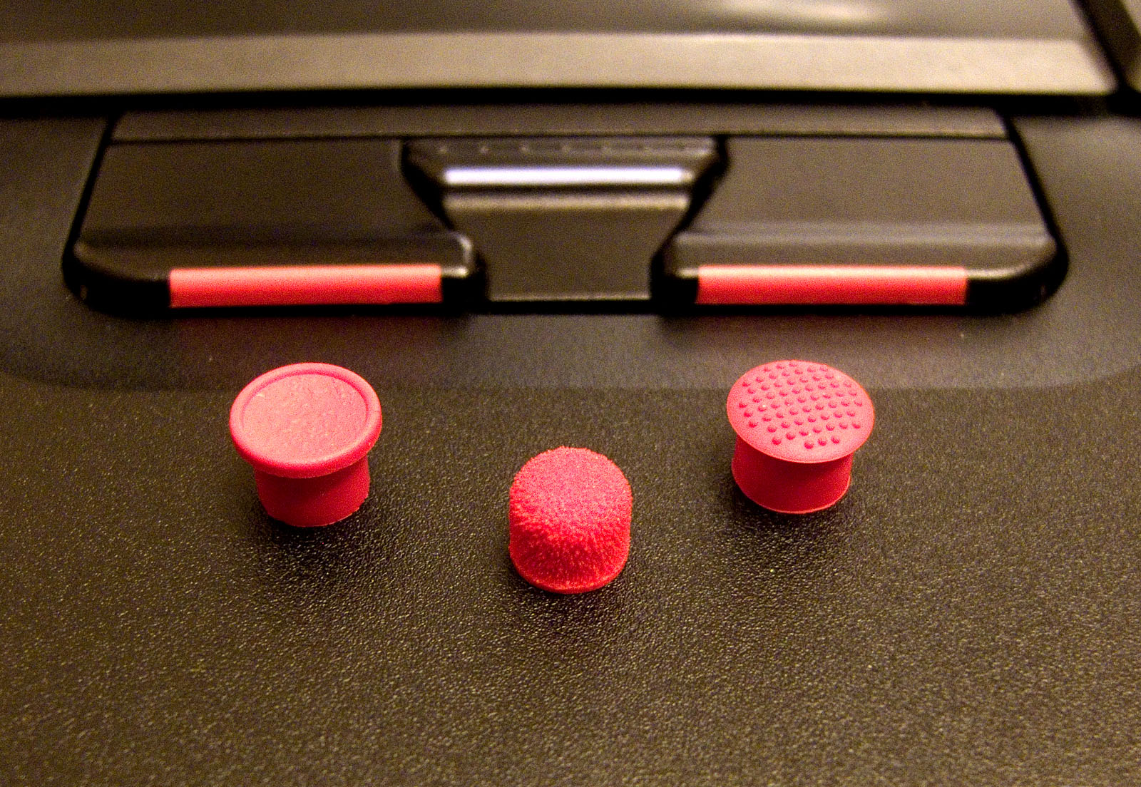 IBM trackpoint tips photographed by the Trackpoint buttons of an X32. Left to right, "soft cup," "classic dome" (sometimes called the "eraser tip"), and "soft dome."